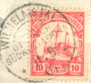 Stamps for German South West Africa postmarked Wilhelmstal 1907